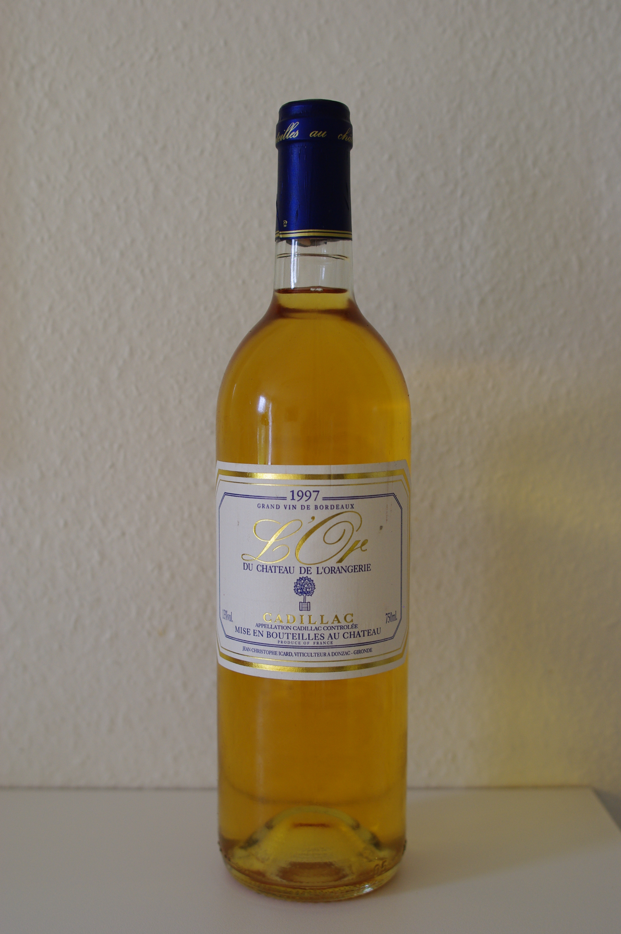 A late-harvest desert wine from the French AOC region of Cadillac in the Entre-Deux-Mers subregion of Bordeaux. Made from Botrytis cinerea infected grapes in a matter similar to Sauternes.